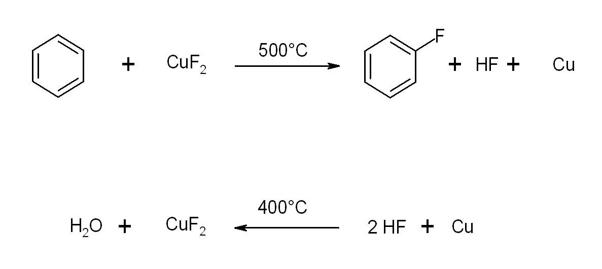 created myself